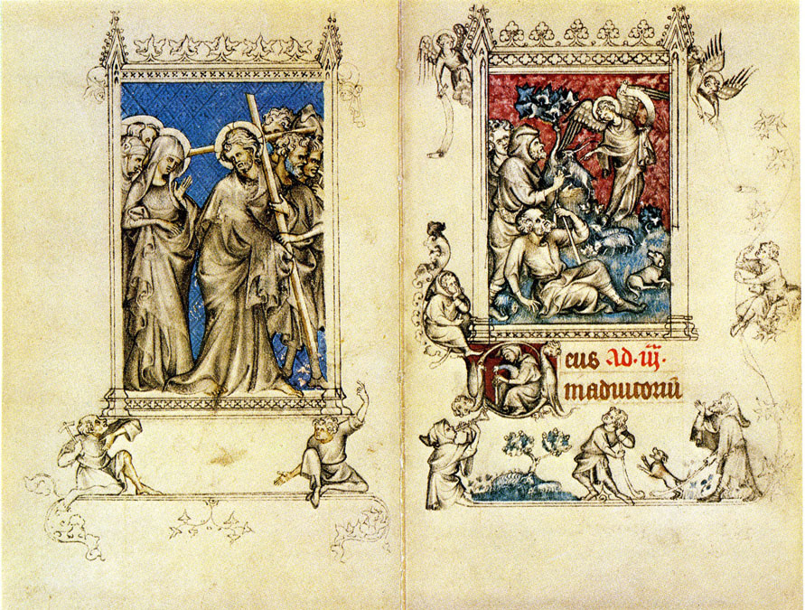 The Hours of Jeanne d'Évreux